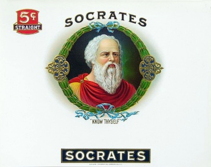 Cigar box label, Socrates, George Schlegel lithographers from N.Y.